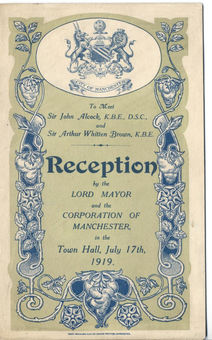 cover of Civic Reception programme for Alcock and Brown, Town Hall Manchester 17 July 1919